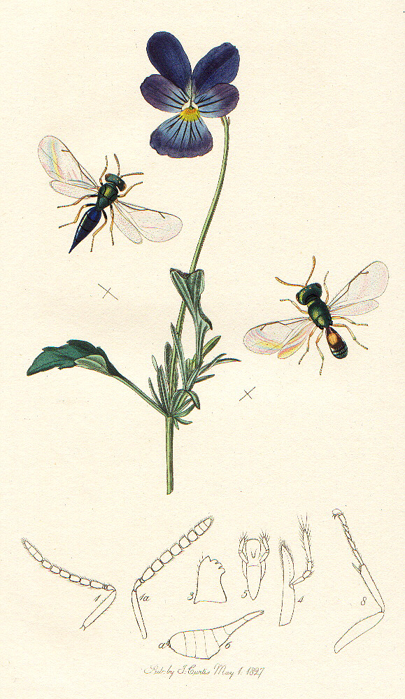 Folio 166 from John Curtis British Entomology: Pteromalus dispar the Northern Colax.